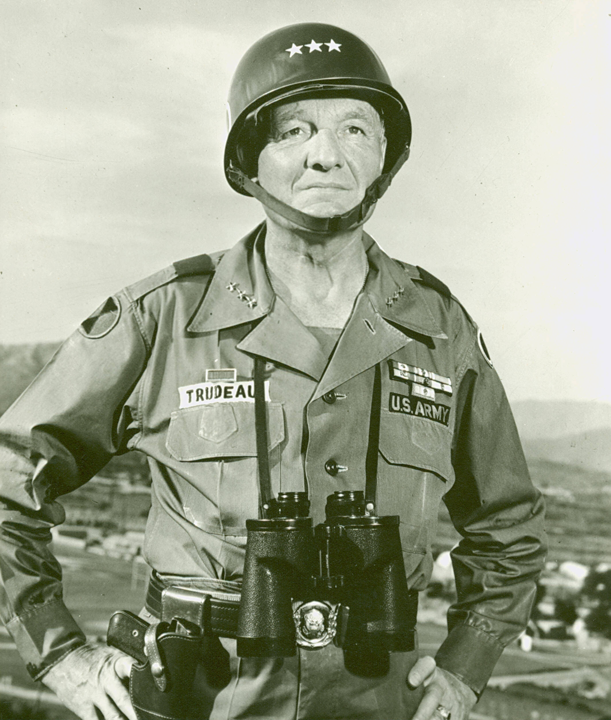 Photograph of Lt. Gen Trudeau. (Personalities Photo Collection).